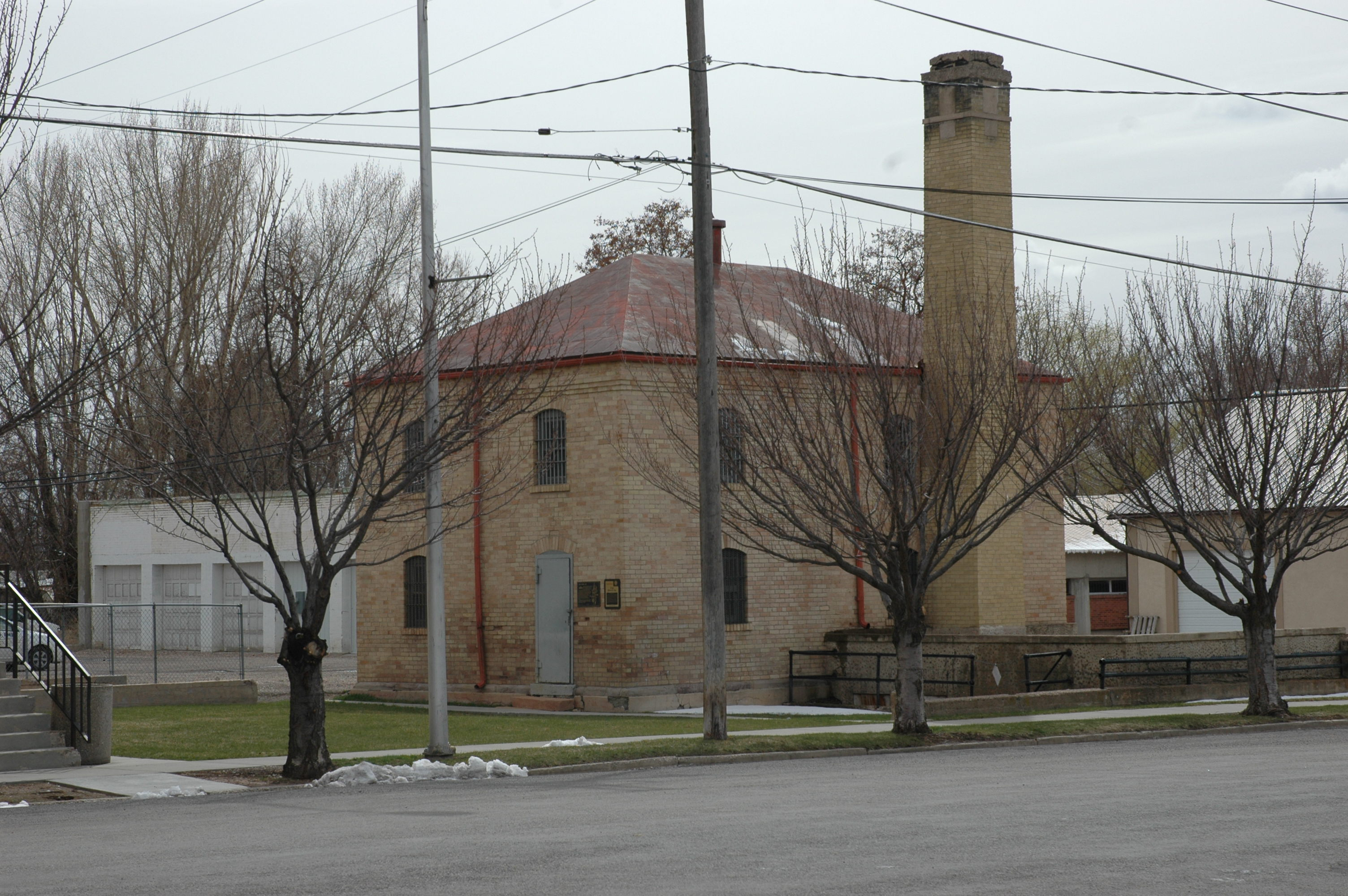 The old Juab County Jail, a historic building in Nephi, Utah, United States.